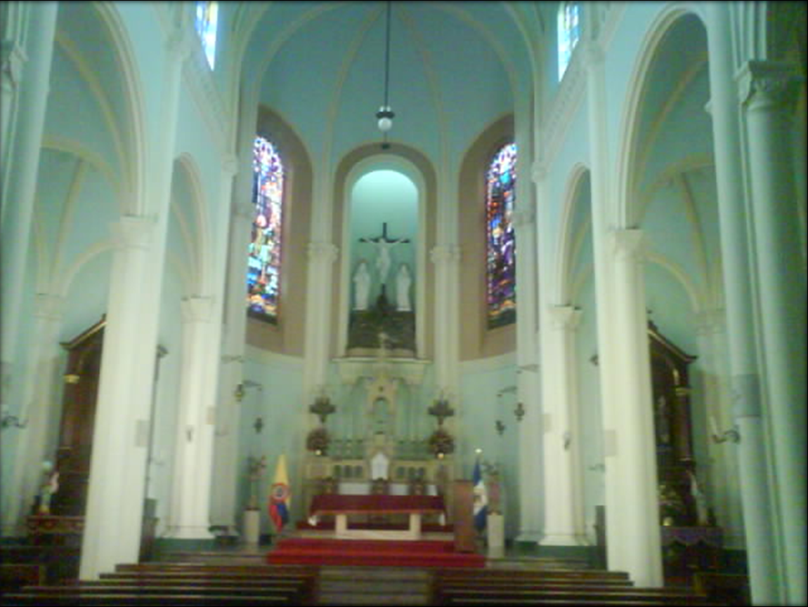 HIgh altar of the La Santa Cruz Chapel, part of the La Candelaria see of the La Salle University in Bogota, Colombia